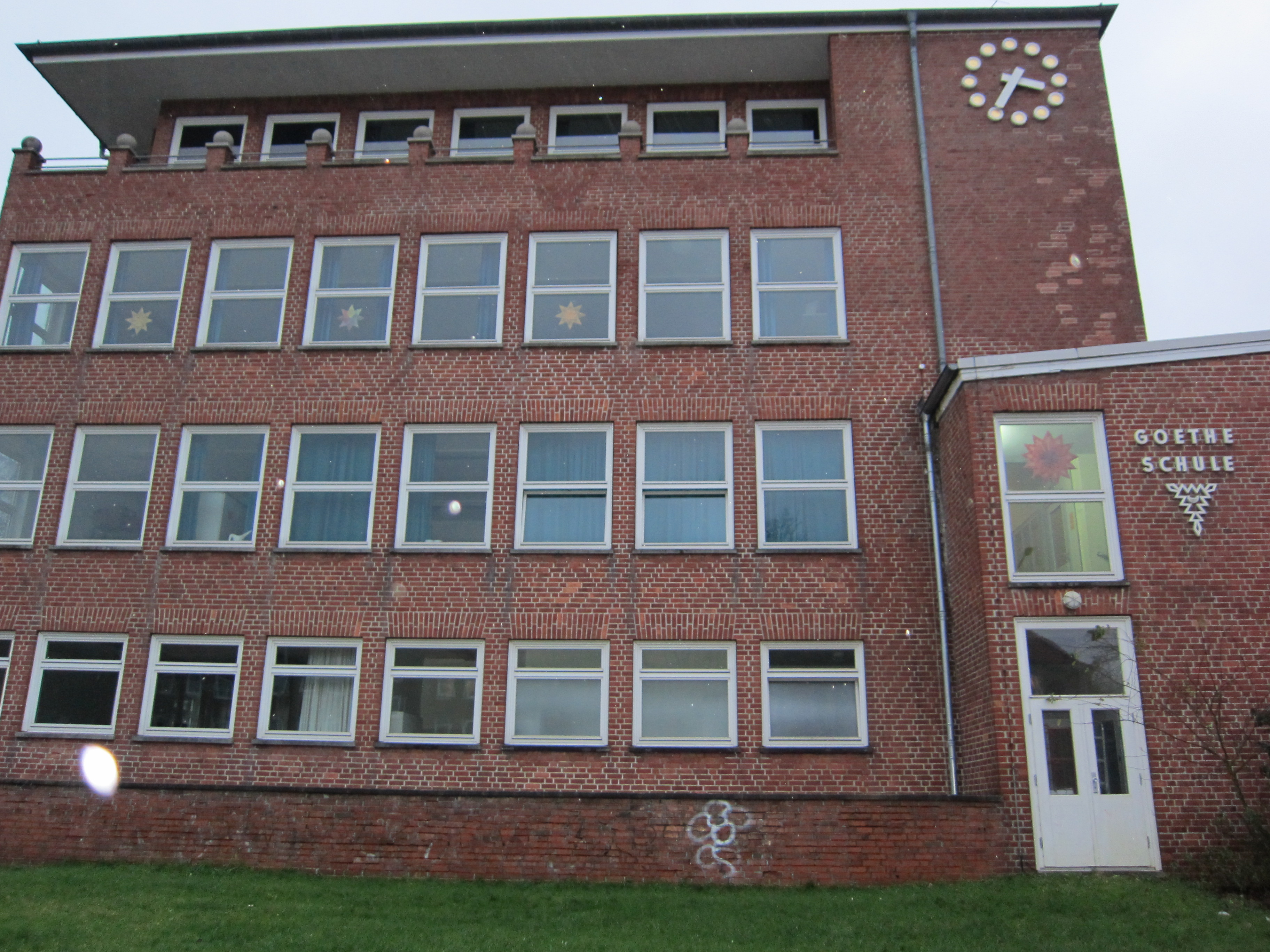 Goetheschule, Kiel-Ravensberg